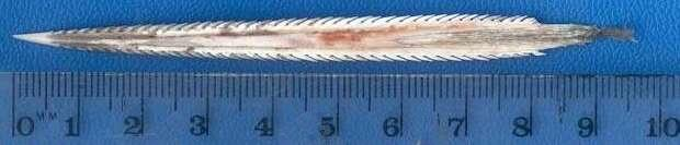 Stingray's sting from Coral Sea - Australia, Rockhampton.